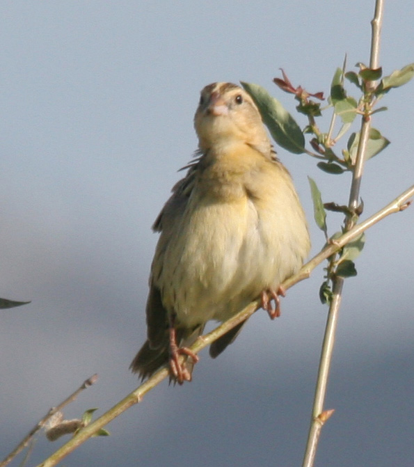 Female Bobolink (Dolichonyx oryzivorus), Lamoille, NV, USA